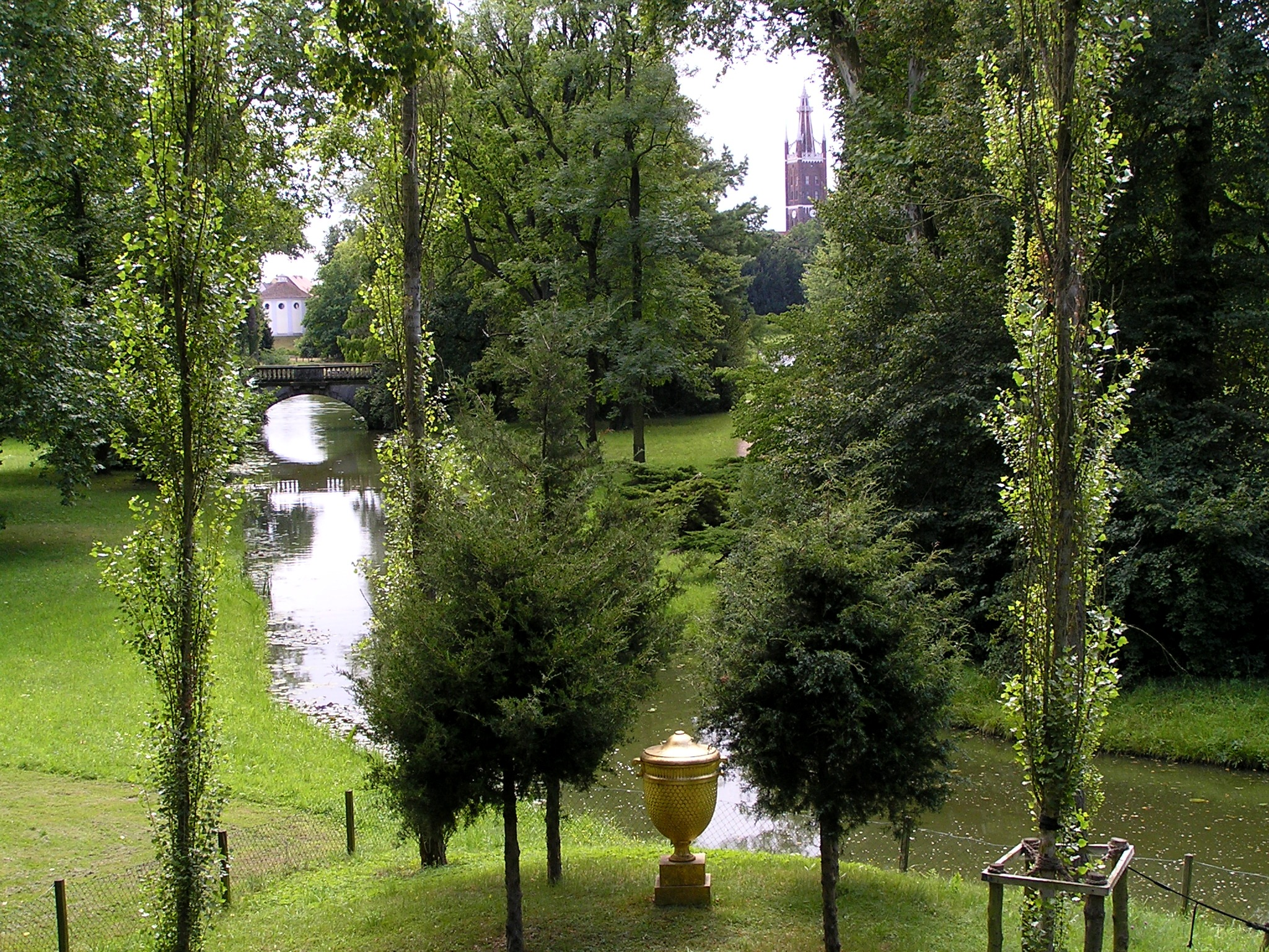 Sichtenfächer Goldene Urne, Fürst Franz ließ ab 1764 die weltberühmten Anlagen bauen, " das Nützliche mit dem Schönen" verbinden